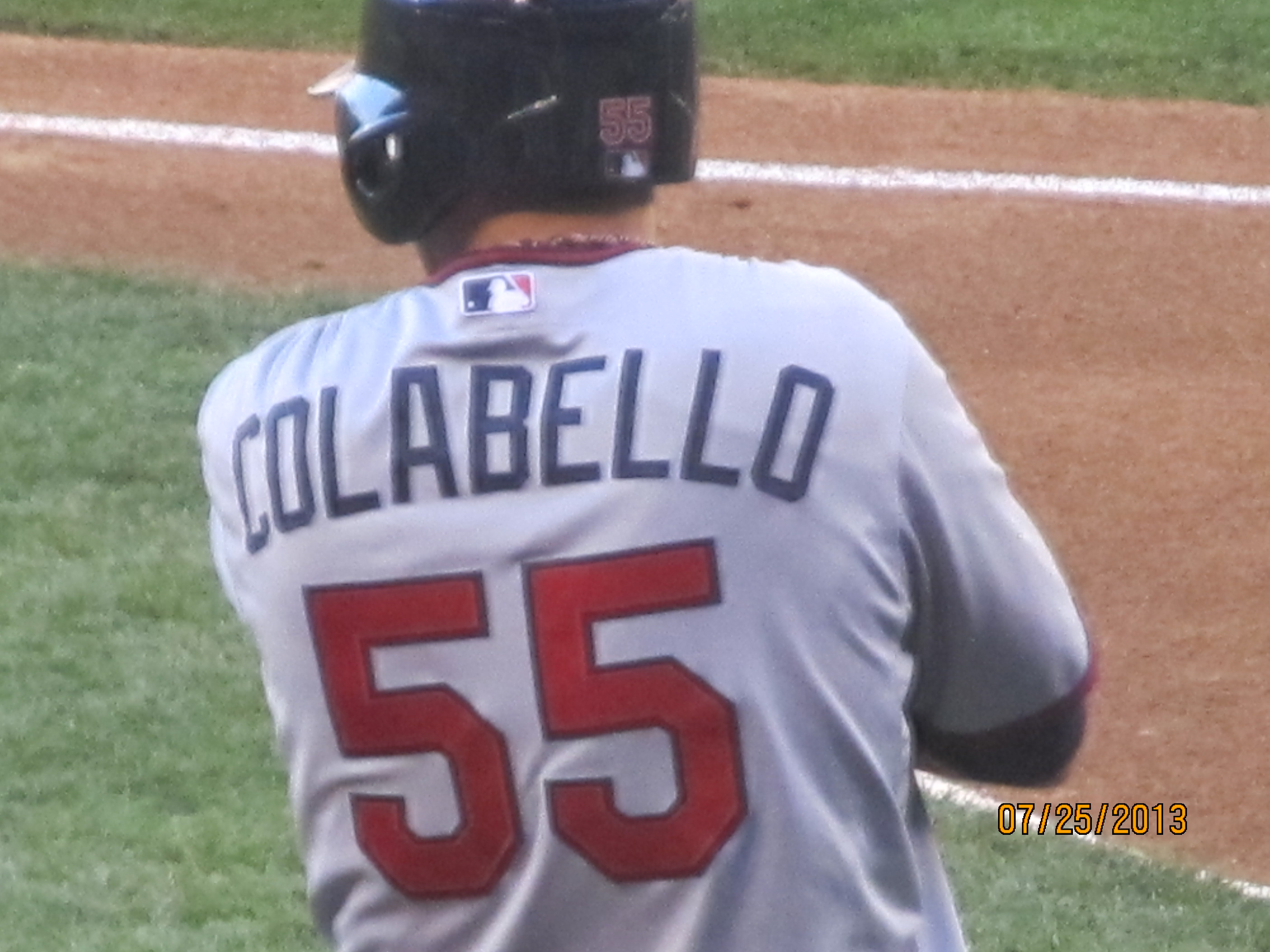 Colabello playing for the Twins